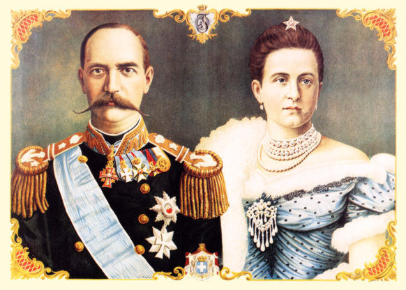 Lithography of King George and Queen Olga of Greece